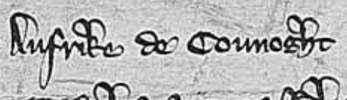 The name of Aufrica de Connoght as it appears in a petition regarding her claimed rights to the Isle of Man, as an heiress of Magnús Óláfsson, King of Mann and the Isles. The source website states that the reference number is "SC 8/100/4955". The source website states that the former reference in its original department is "Parliamentary Petition 1731". The source website gives the following note: "Datable to the period of Anthony Bek's control of the Isle of Man (Handbook of British Chronology, p. 65)".